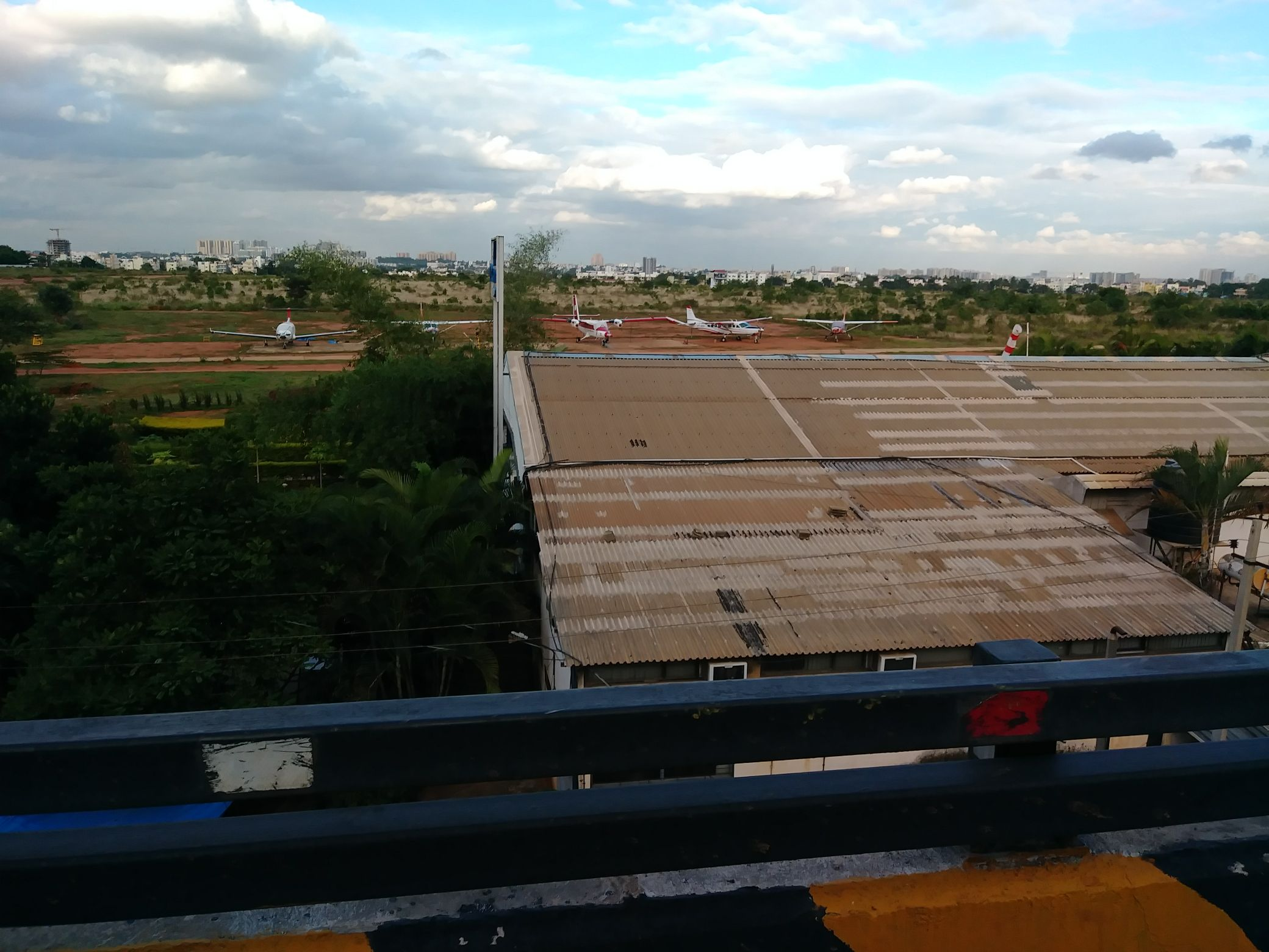 Aircraft parked at Jakkur aerodrome in Bengaluru, India.